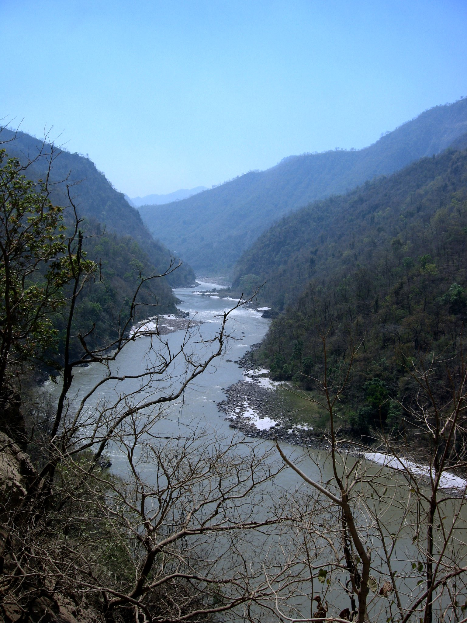 River Ganga meandering through the Shivalik ranges, Rishikesh.